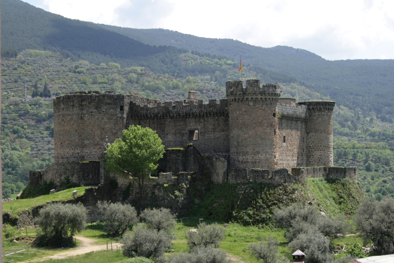 The Middle Age fortress of Mombeltrán in the province of Ávila, under the autonomous region Castilla y Léon, Spain.